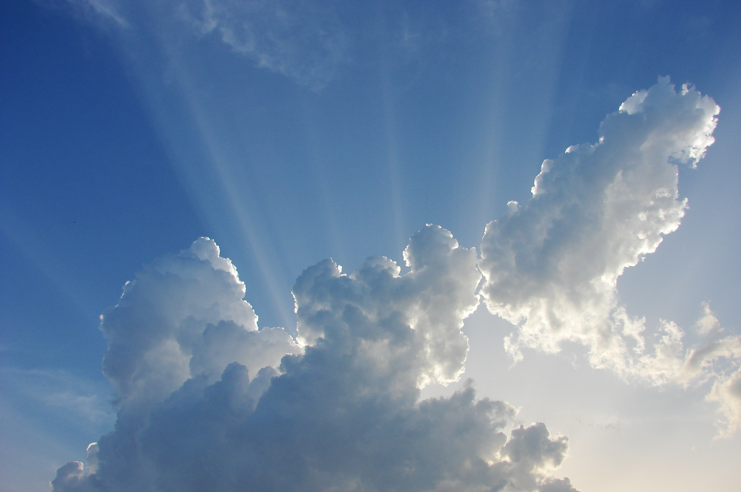 Crepuscular rays in the clouds in Plano, Texas.